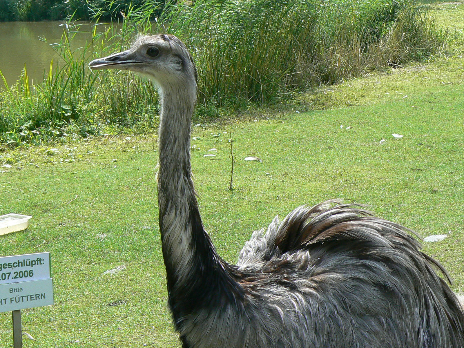 rhea americana / Greater rhea / nandu